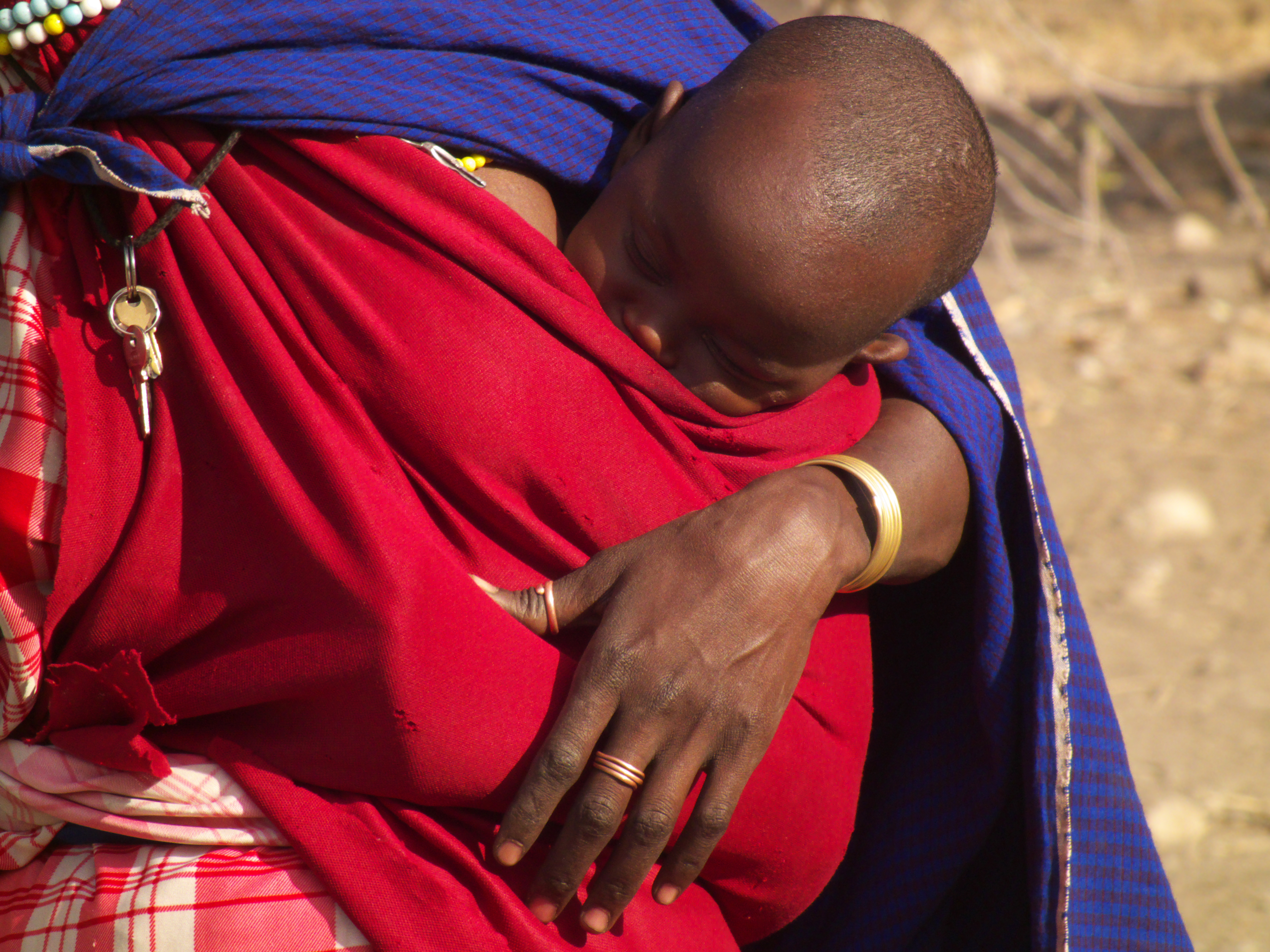 Masai baby carried with mother in Tanzania